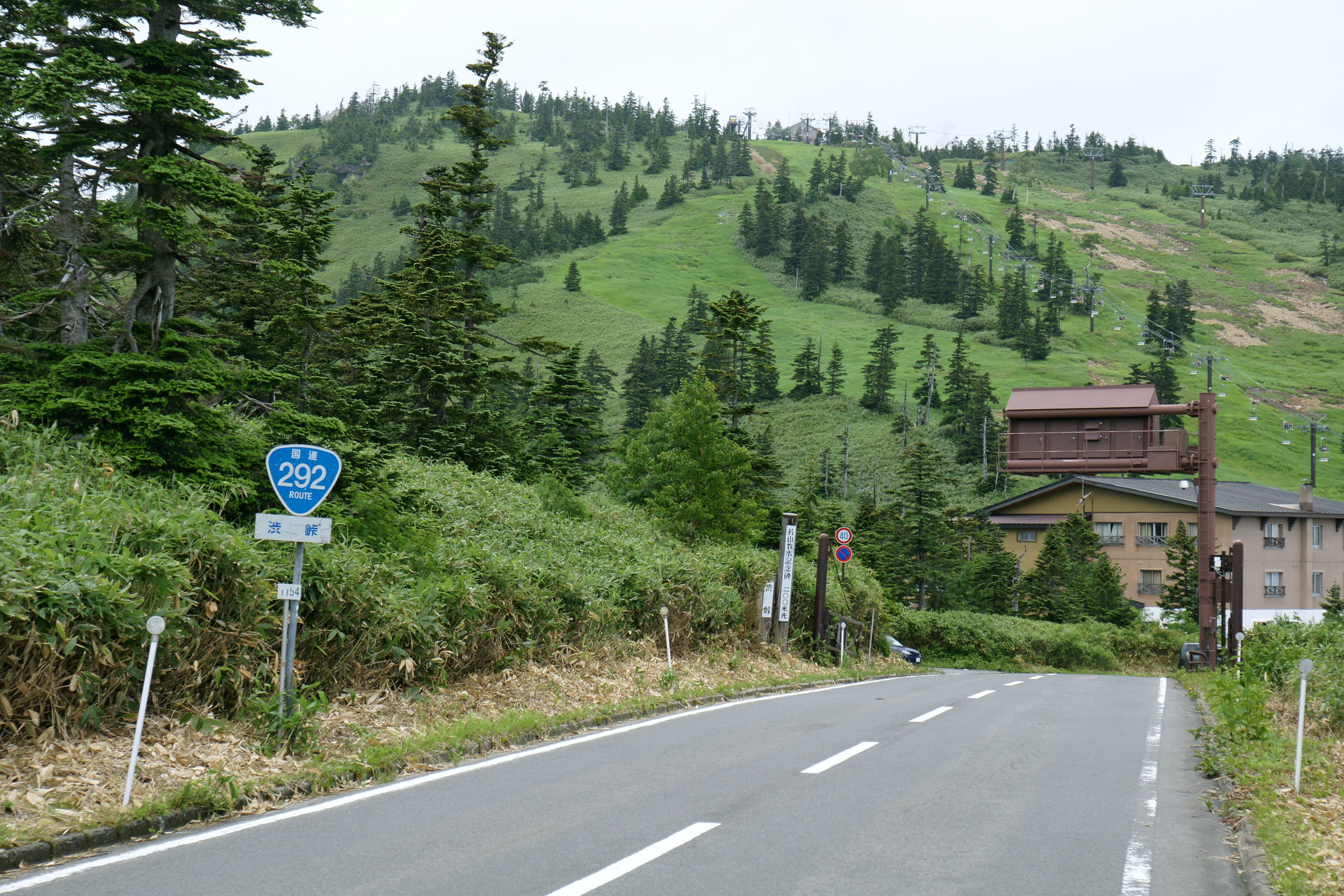 at Shibu-toge, Kuni, Gunma prefecture, Japan